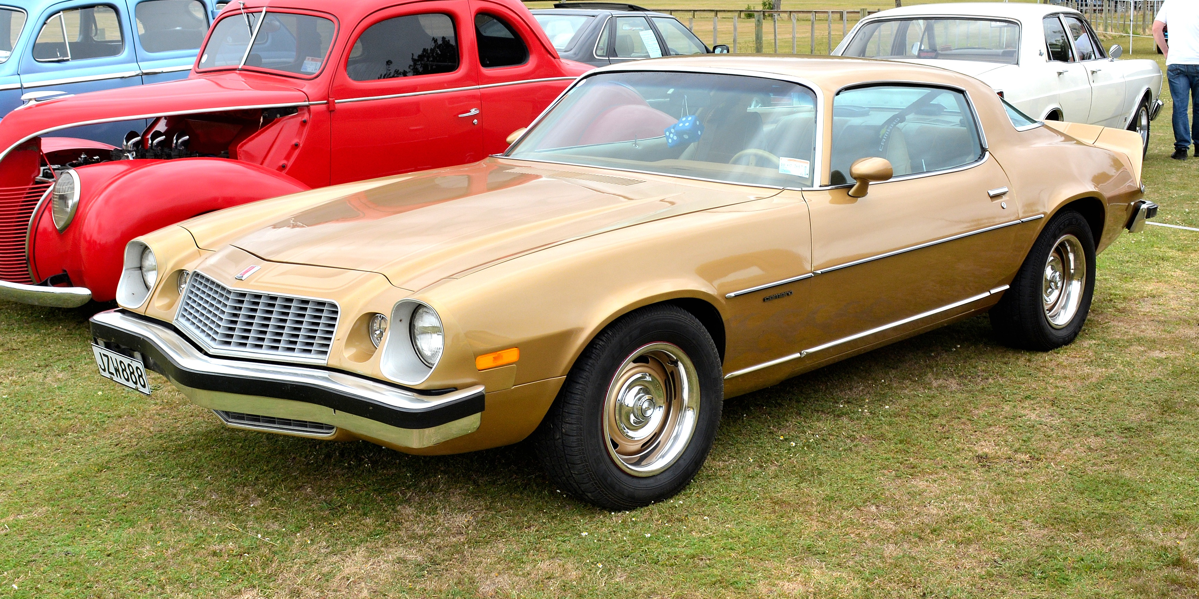 At Morrinsville 2017,New Zealand